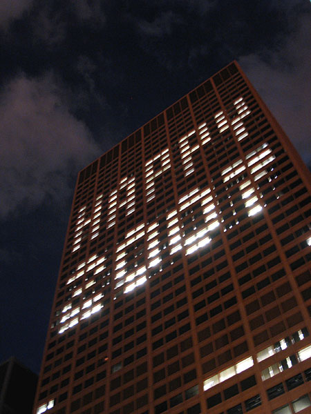 CNA Plaza (Chicago, Illinois, USA) showing "Happy 2007" lighted window display on New Year's Eve.